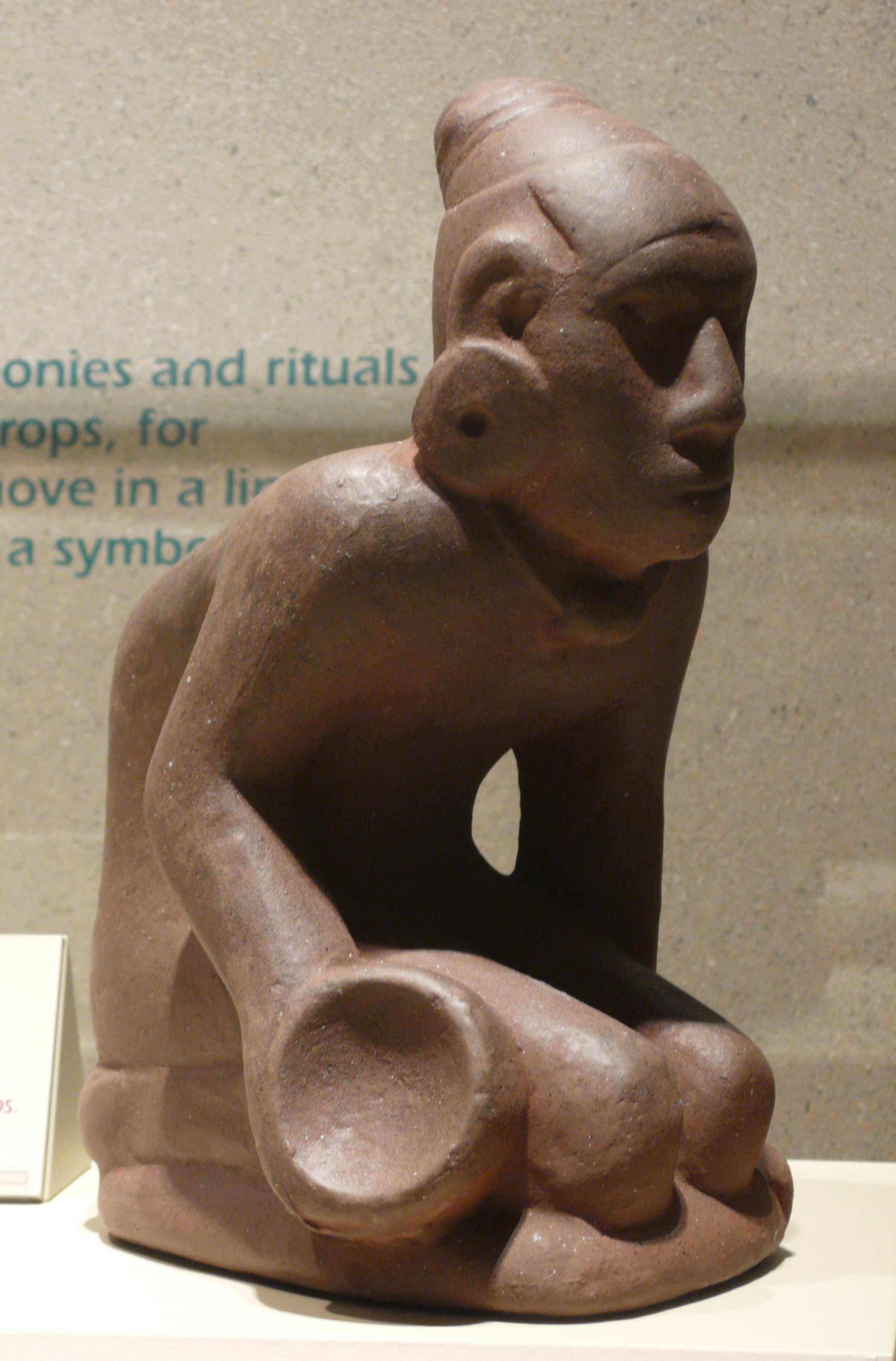 The "Chunkey Player" is a 8.5 inches (22 cm) high by 5.5 inches (14 cm) wide Missouri flint clay statuette depicting a player of the ancient Native American game of chunkey. Believed to have been originally crafted at or near the Cahokia Mounds site in Illinois, it was found in Muskogee County, Oklahoma. It is now part of the Henry Whelpley Collection at the St. Louis Science Center.[1]